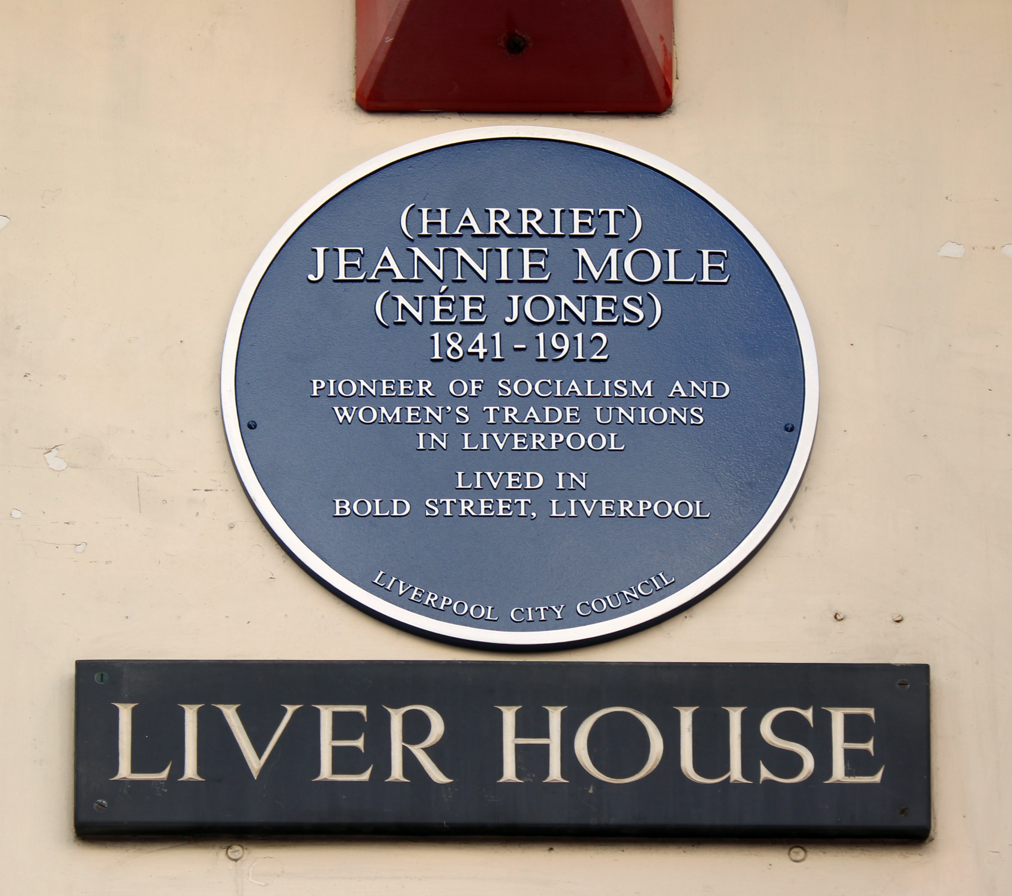 Plaque to Jeannie Mole on the front wall of 96 Bold Street, Liverpool.